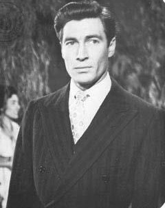 Luis Davila- actor